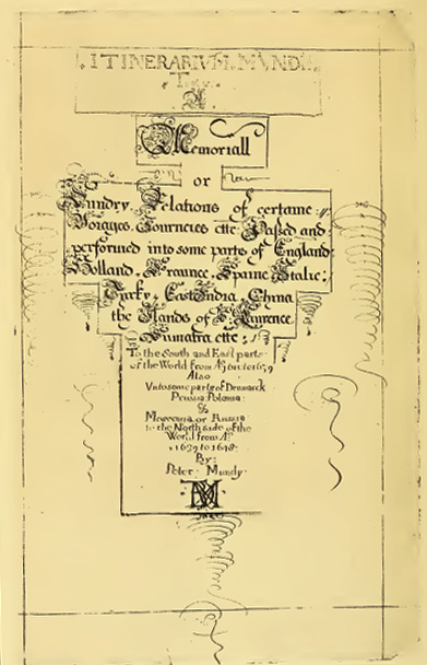 A title-page of the RELATIONS(1611-1648) manuscript by Peter Mundy